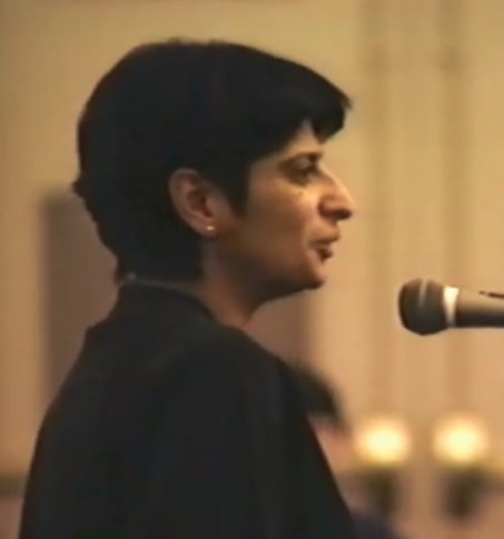 Former Executive Director Urvashi Vaid at the National Gay and Lesbian Task Force's Creating Change Conference in Raleigh, North Carolina in 1993. From Network Q Out Across America Episode 27, January 1994. Watch the rest of the episode at Produced and directed by David Surber. Originally distributed via subscription on VHS tape; aired on public television in the US in 1995.